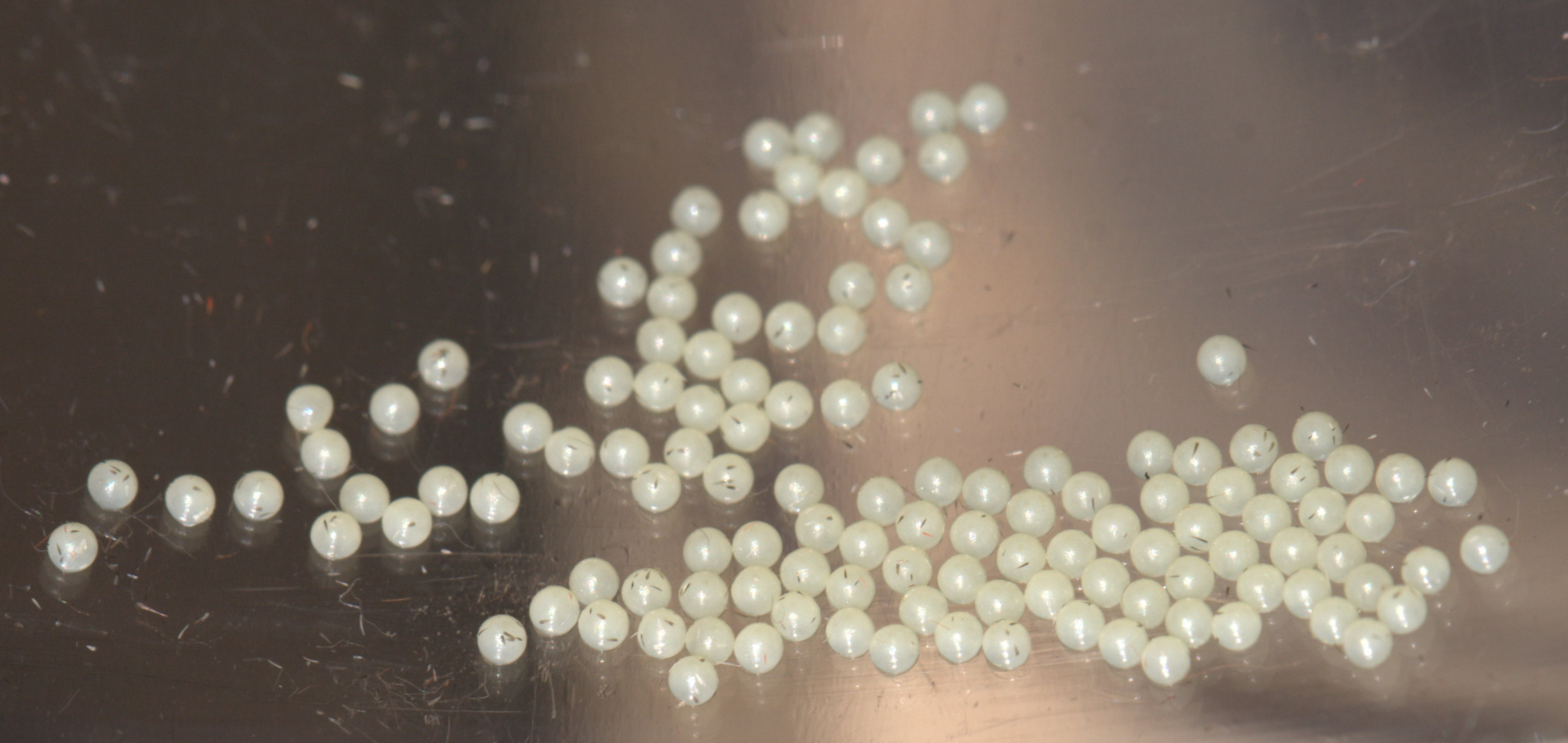 Ardices glatignyi in suburban Sydney